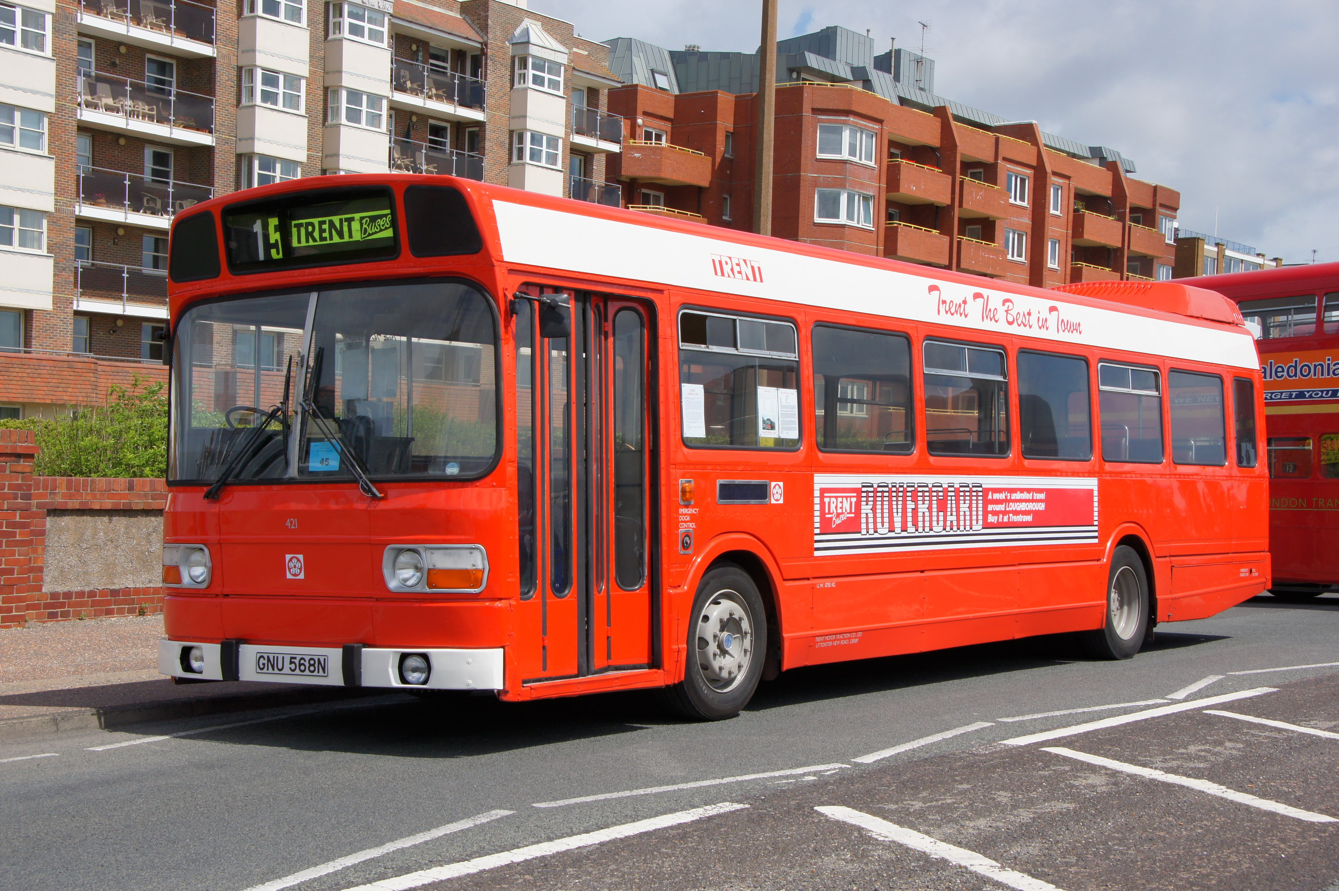 Trent buses 421 (GNU 568N), a Leyland National, seen at Worthing bus rally 2012.